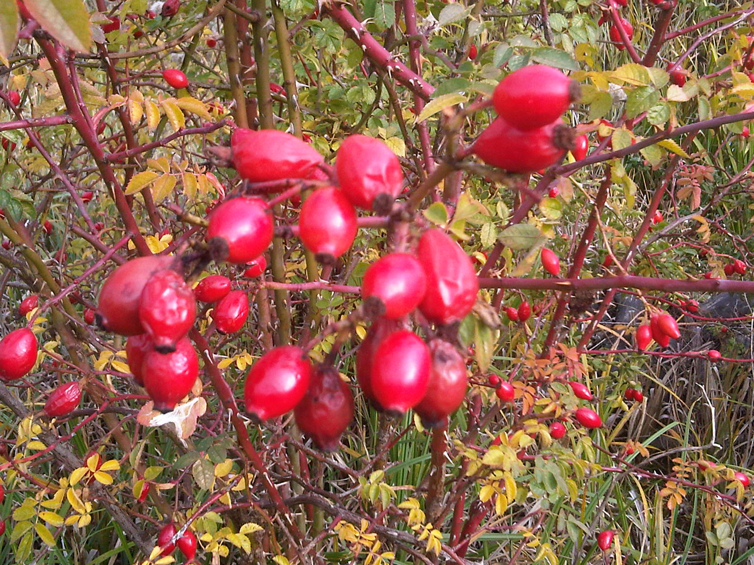 Rose hip, or rose haw (Rosa canina) in WWT London Wetland Centre, England.